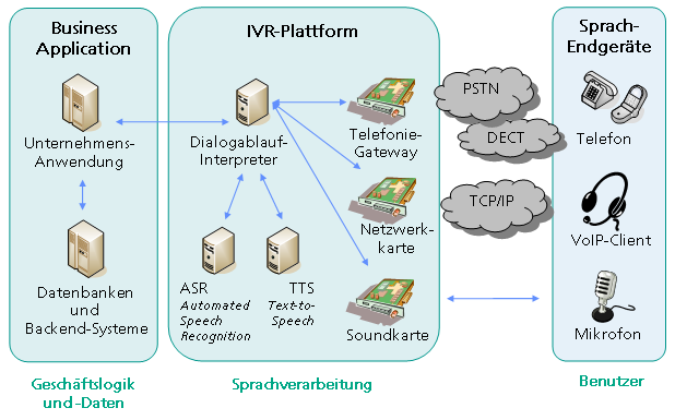 Architecture of Interactive Voice Response Systems